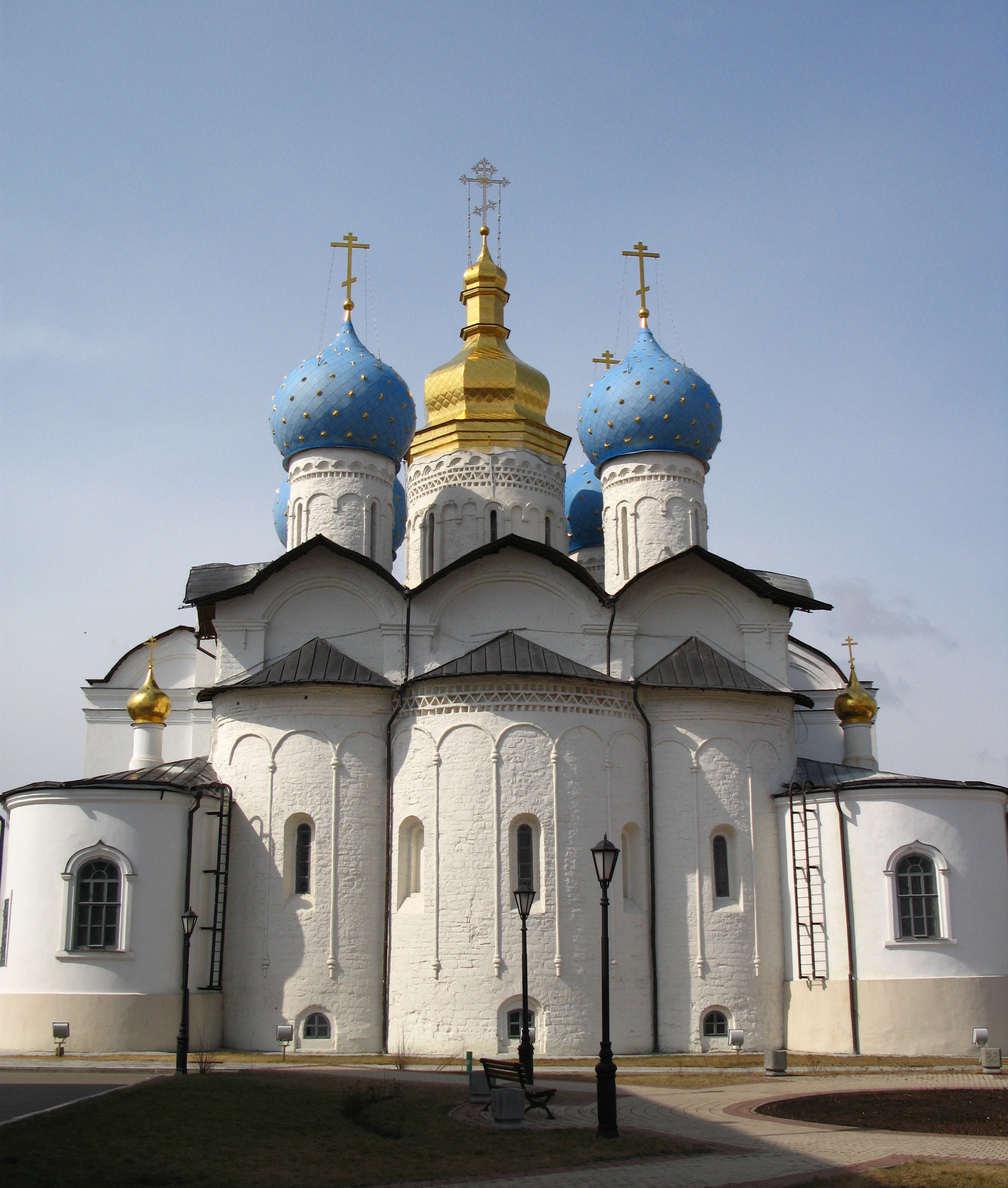 Annunciation cathedral, Kazan Kremlin, Kazan, Russia.